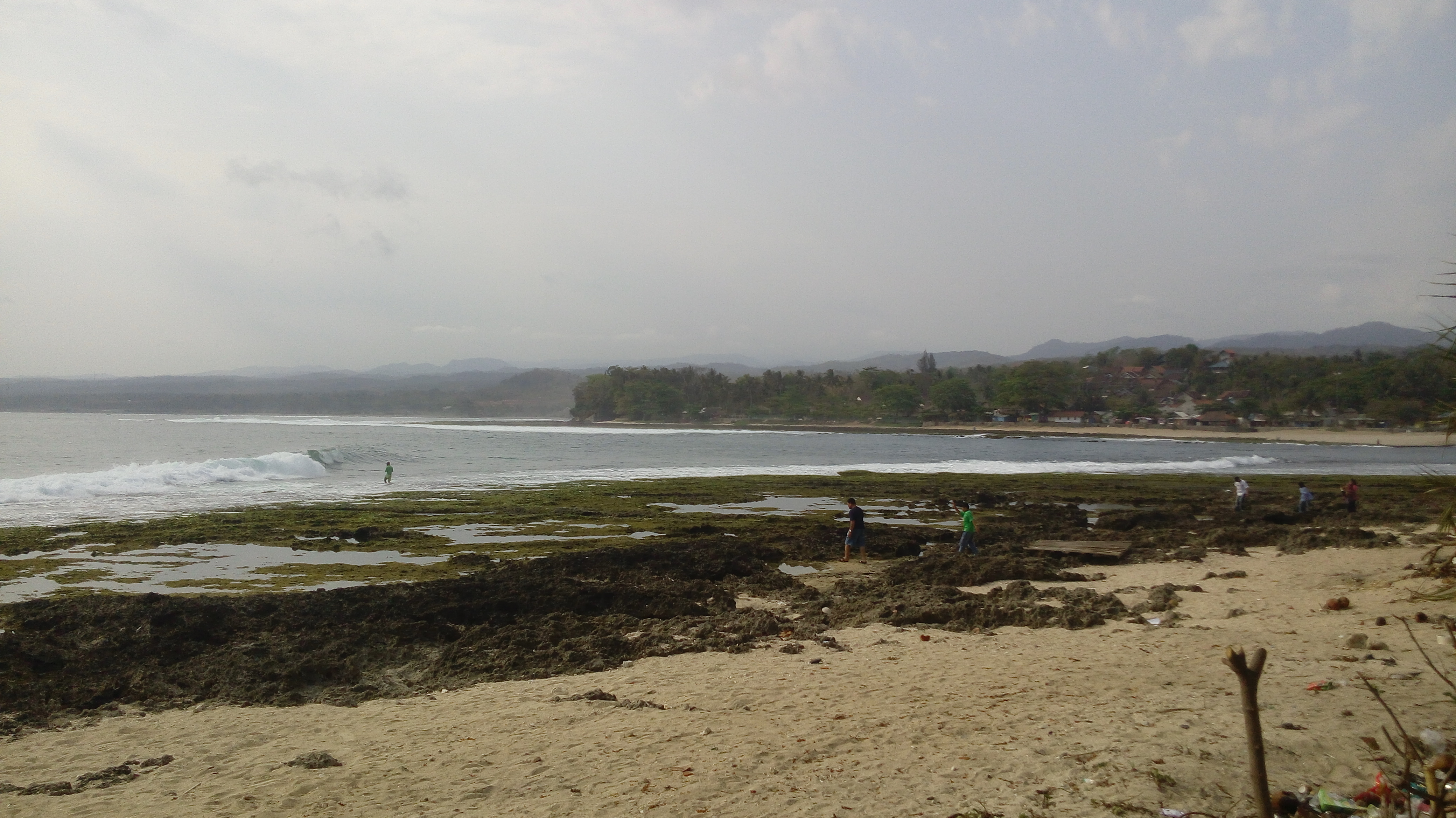 Rancabuaya beach